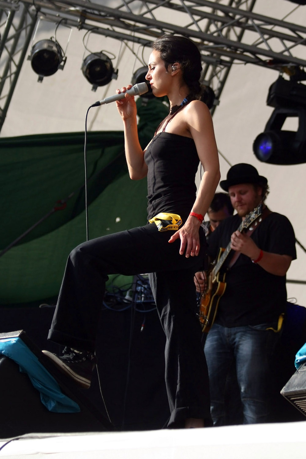 SAEDI - Donauinselfest 2011 in Vienna